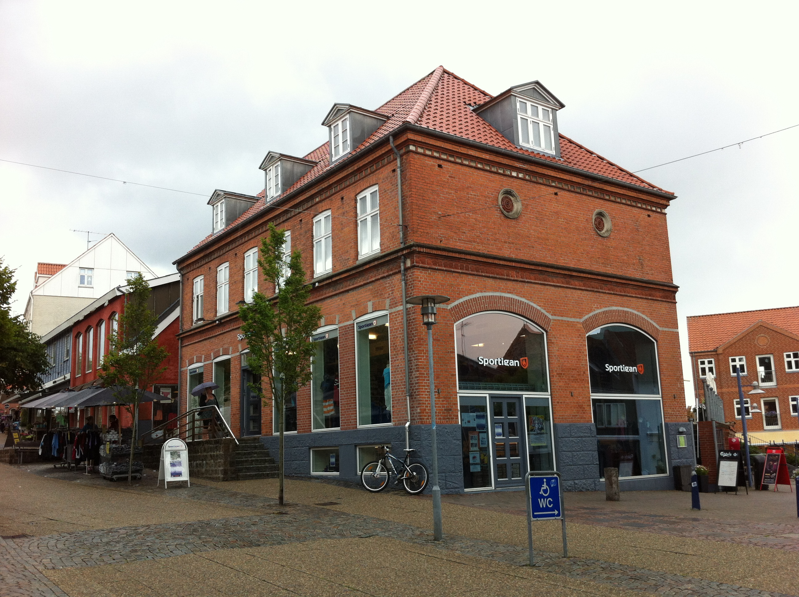 Sportigan shop in Hadsund pedestrian right one can discern the square